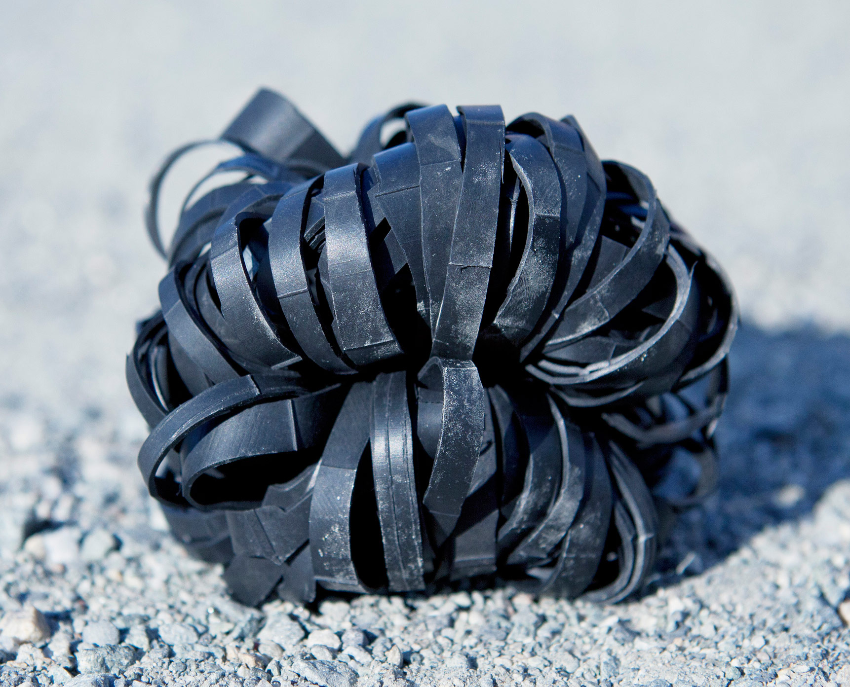 Basse from Trøndelag, Norway. Made of cut bicycle tubes, then tied together to a ball. Photo: Lars H. Andersen /